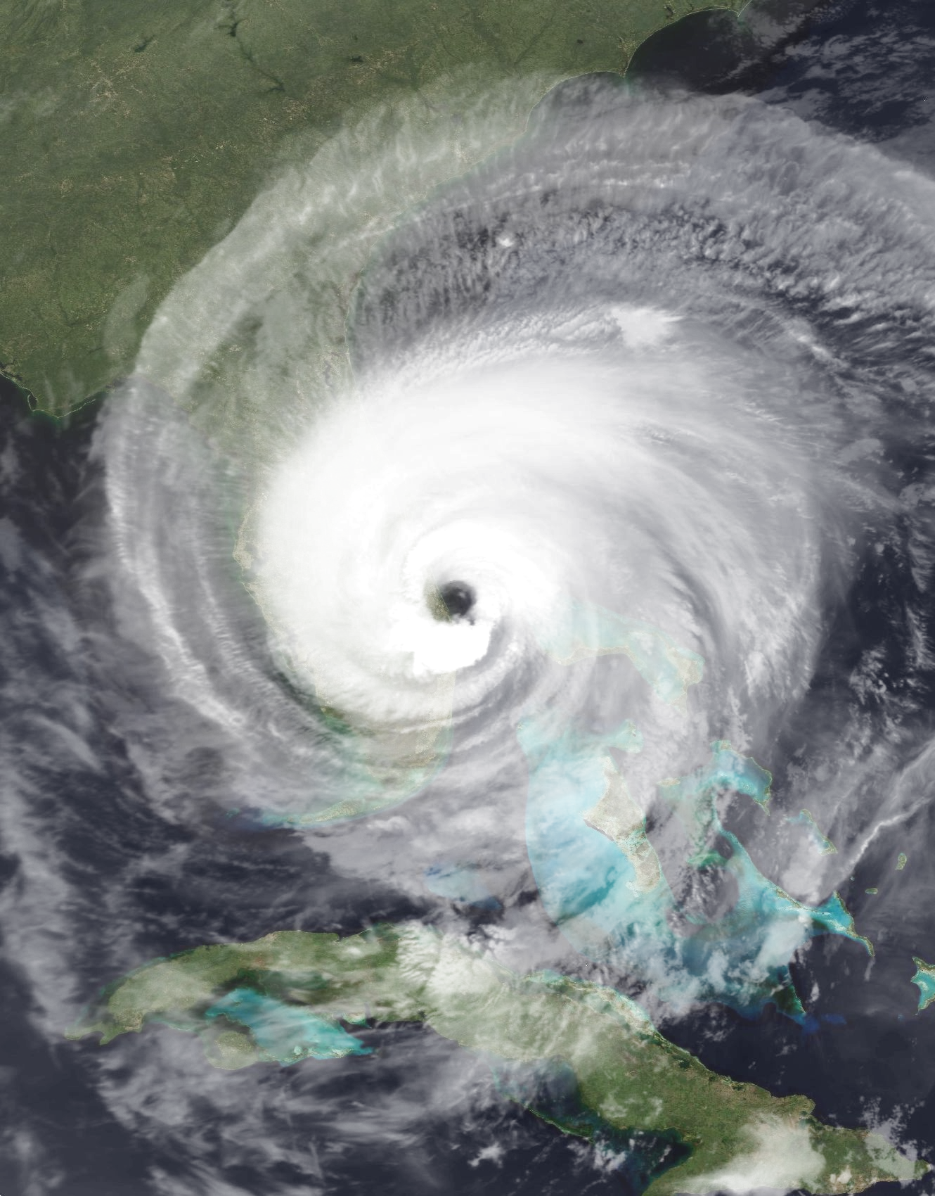 Hurricane Jeanne making landfall in Florida at peak intensity on September 26, 2004